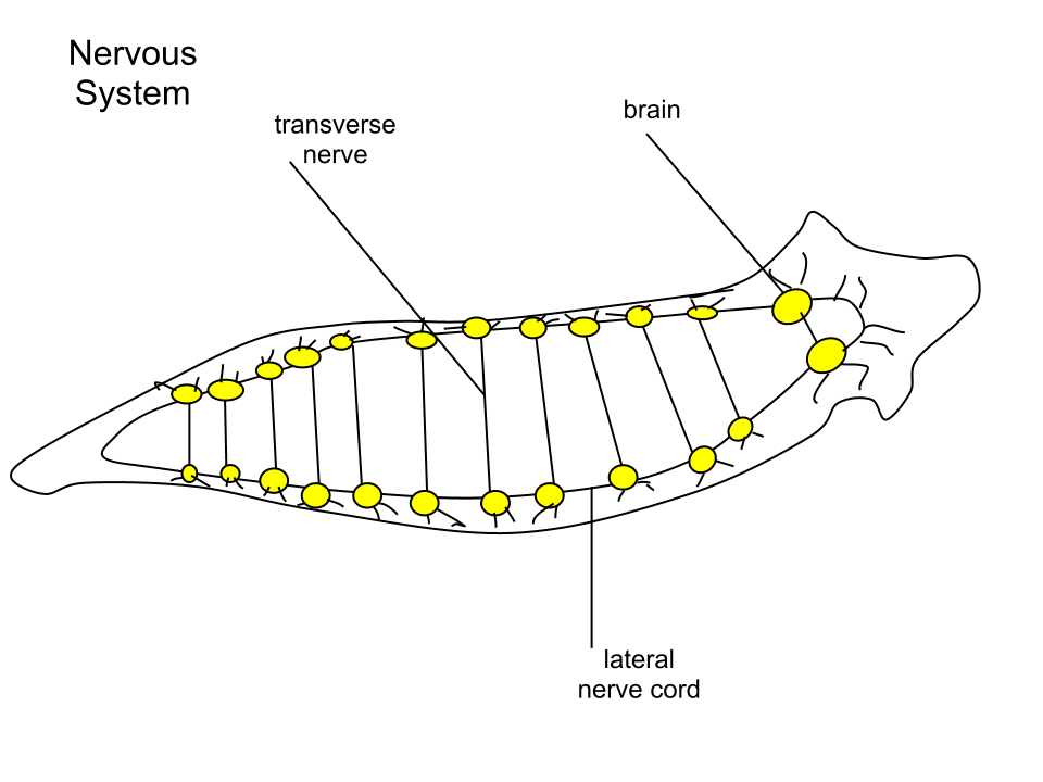 Planaria nervous system diagram.